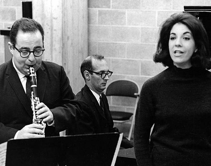 This is a photo of Sherman Friedland in rehearsal.